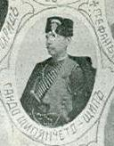 Portrait of IMARO member Sando Shtipiancheto from Shtip